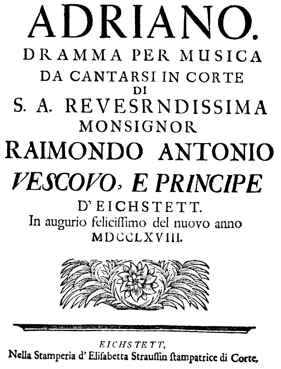 Hieronymus Mango - Adriano in Siria - titlepage of the libretto - Eichstätt 1768